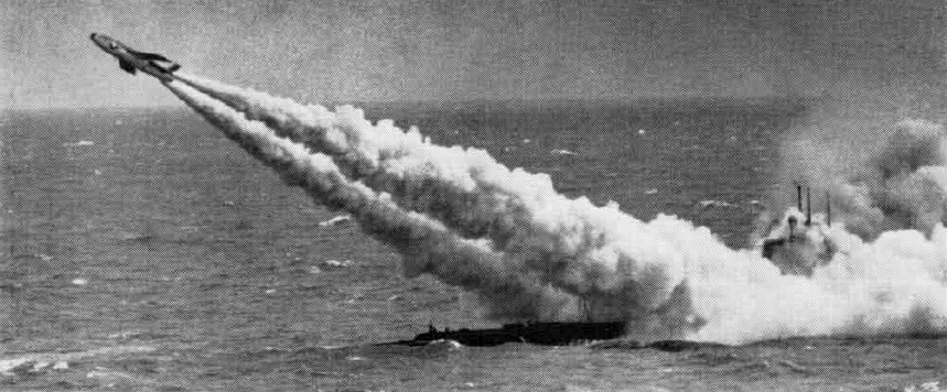 The U.S. Navy Gato-class submarine USS Tunny (SSG-282) launching a SSM-N-8 Regulus I missile in 1958.